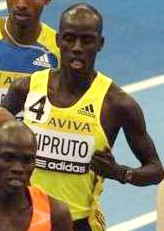 Saif Saaeed Shaheen (QAT), Sammy Mutahi (KEN), Dejene Gebremeskel (ETH), Shedrack Korir (KEN), Brimin Kipruto (KEN) at AVIVA GRAND PRIX - Birmingham